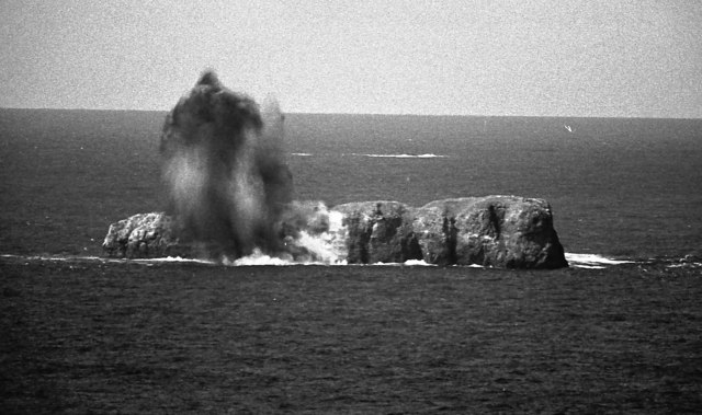 Garvie Island (Scottish Gaelic: An Garbh-eilean) east of Cape Wrath, on the north-west coast of Scotland. The smoke plume and debris chaos observed in the photo are the result of a direct hit by a 1000lb bomb on Garvie Island, dropped by the aircrew of a Blackburn Buccaneer aircraft from No. 12 Squadron RAF based at RAF Lossiemouth. Much of the cape is owned by the Ministry of Defence and is used as a military training area and live firing range (see Cape Wrath, military use). The photo was taken from Faraid Head peninsula.